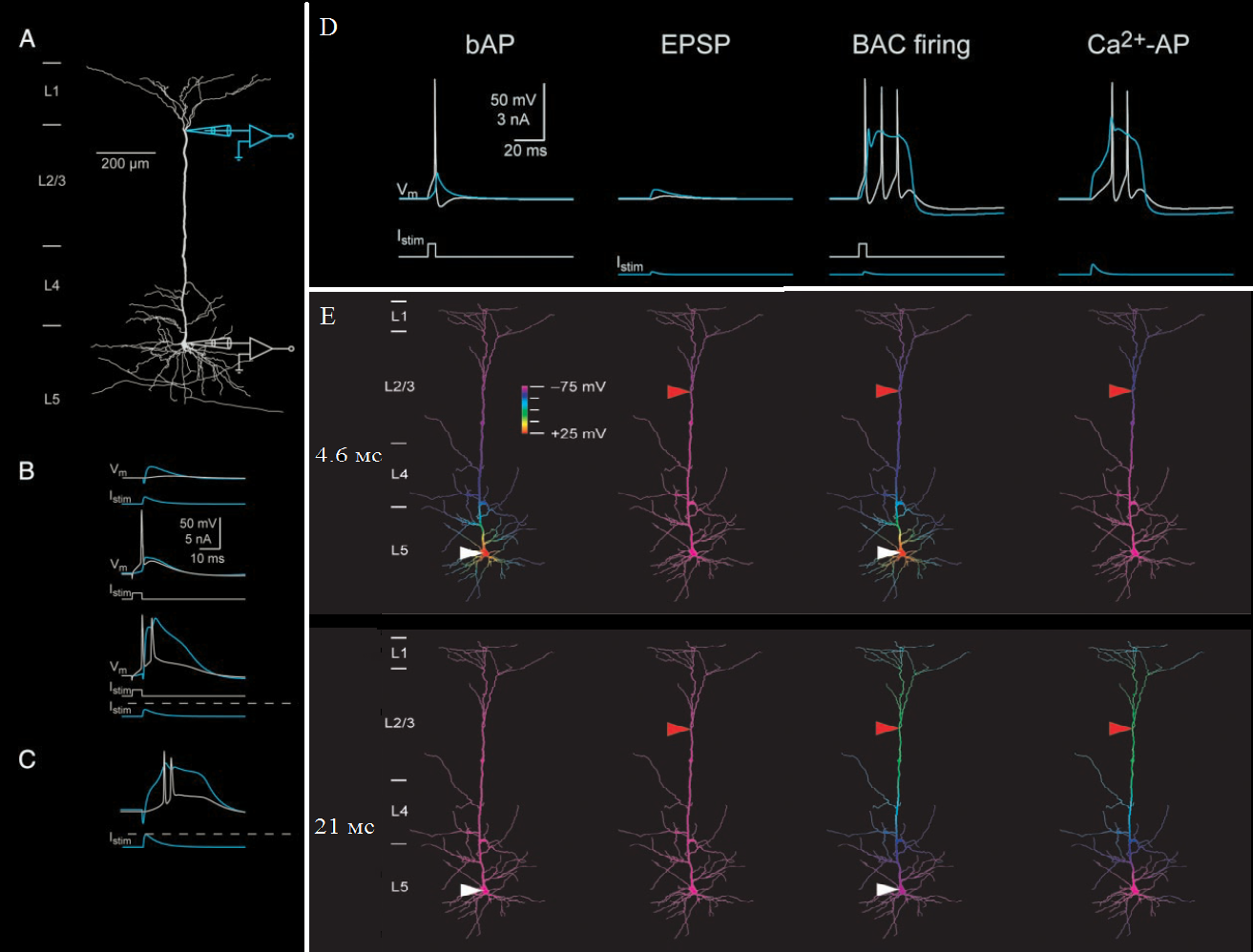 Back propagating action potential - BAC fairing. Adapted and modified from "Coincidence Detection in Pyramidal Neurons Is Tuned by Their Dendritic Branching Pattern"